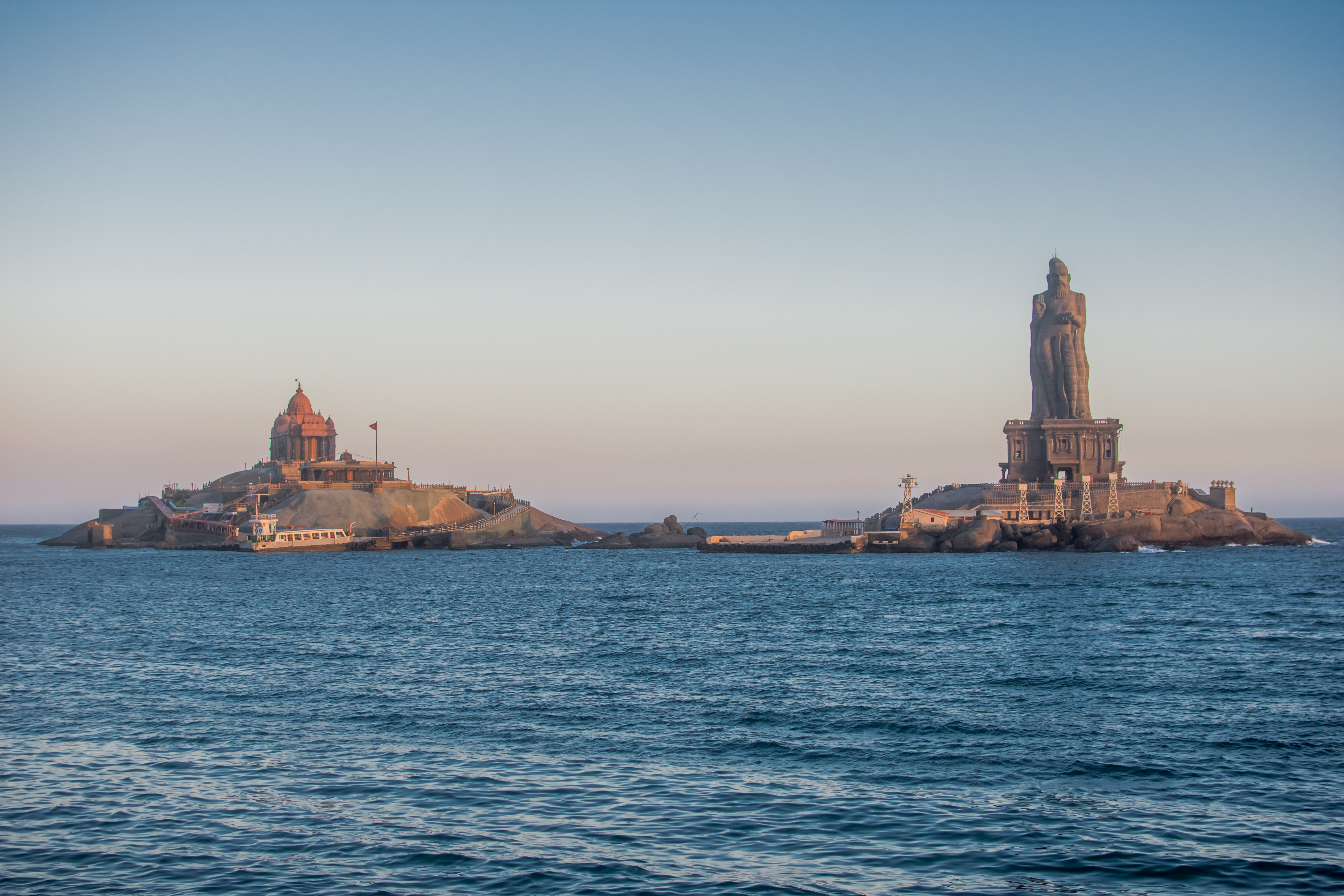 A wide angle photo showing Thiruvalluvar Statue and Vivekananda rock memorial in the background